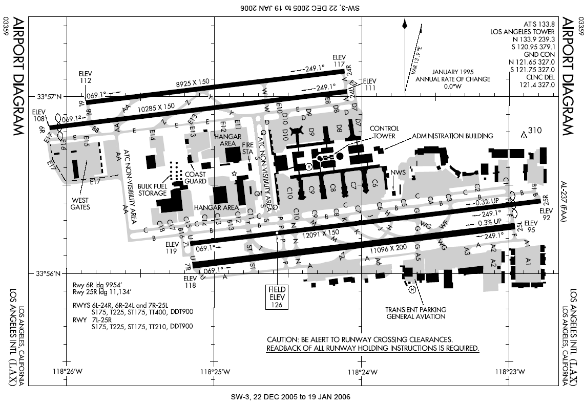 FAA diagram for Los Angeles International Airport (FAA: LAX, ICAO: KLAX) in Los Angeles, California, United States.